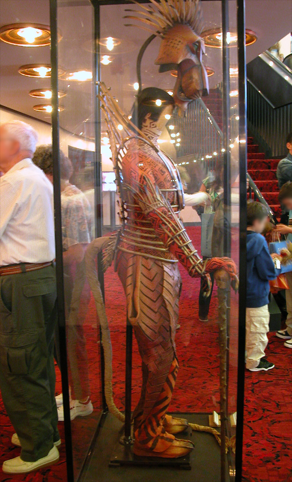 Costume of the character Scar from the musical The Lion King